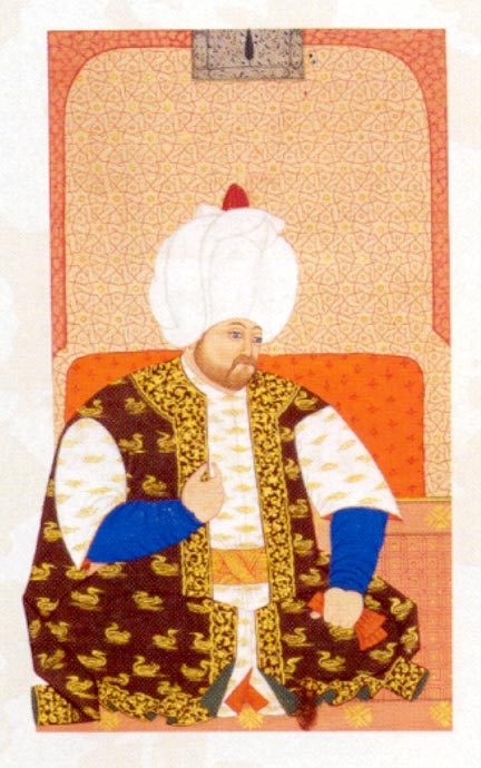 Sultan Selim II. This depiction is apparently life-like, since it depicts him with red hair and blue eyes, as described by contemporaries. Detail of a family-tree: The Sultan's portrait. [exhibition held at the Topkapı Palace Museum in Istanbul, 6.6.-6.9. 2000]. Topkapı Sarayı Müzesi, Istanbul.